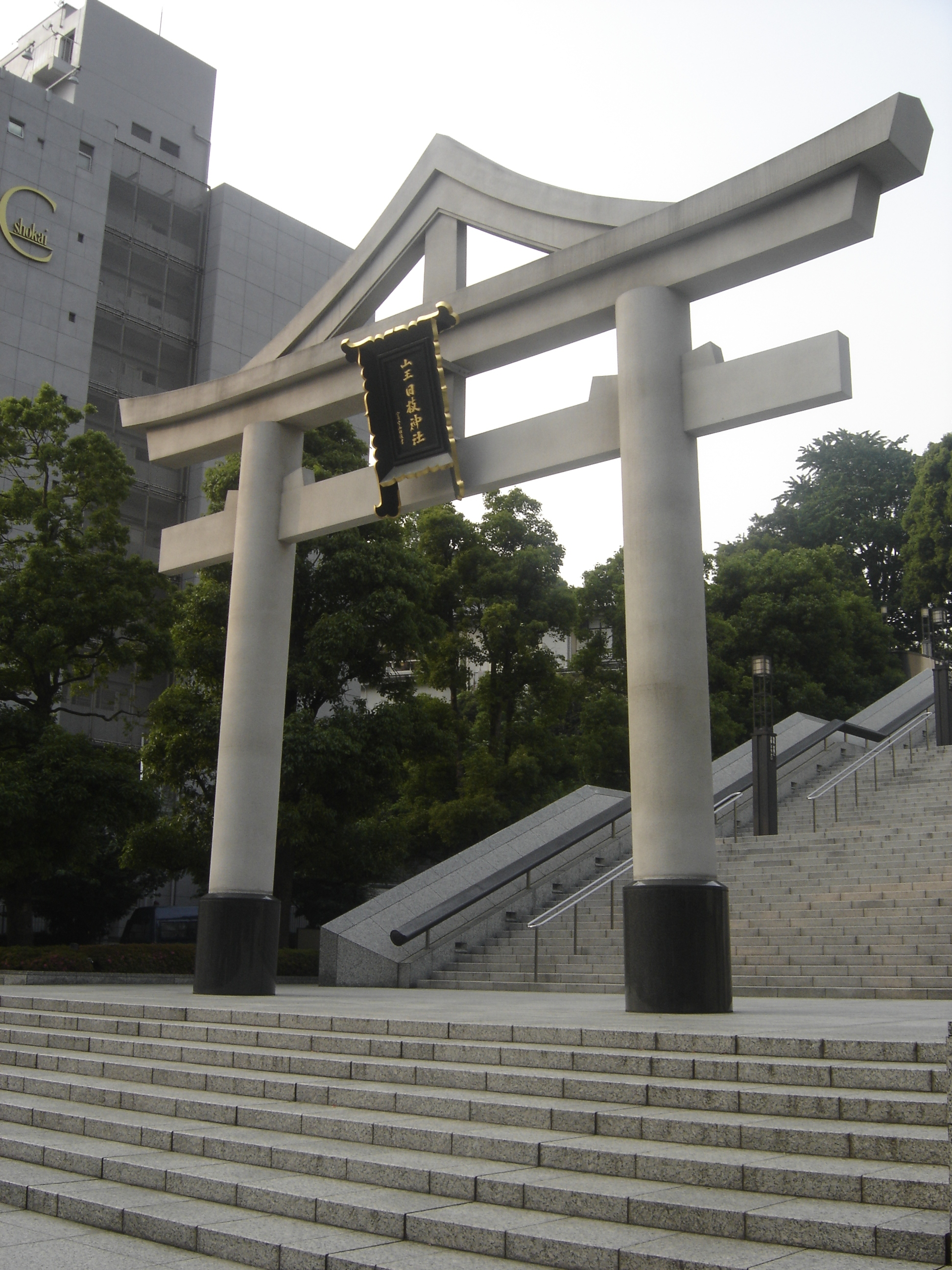 One of the few large torii at Hie Shrine